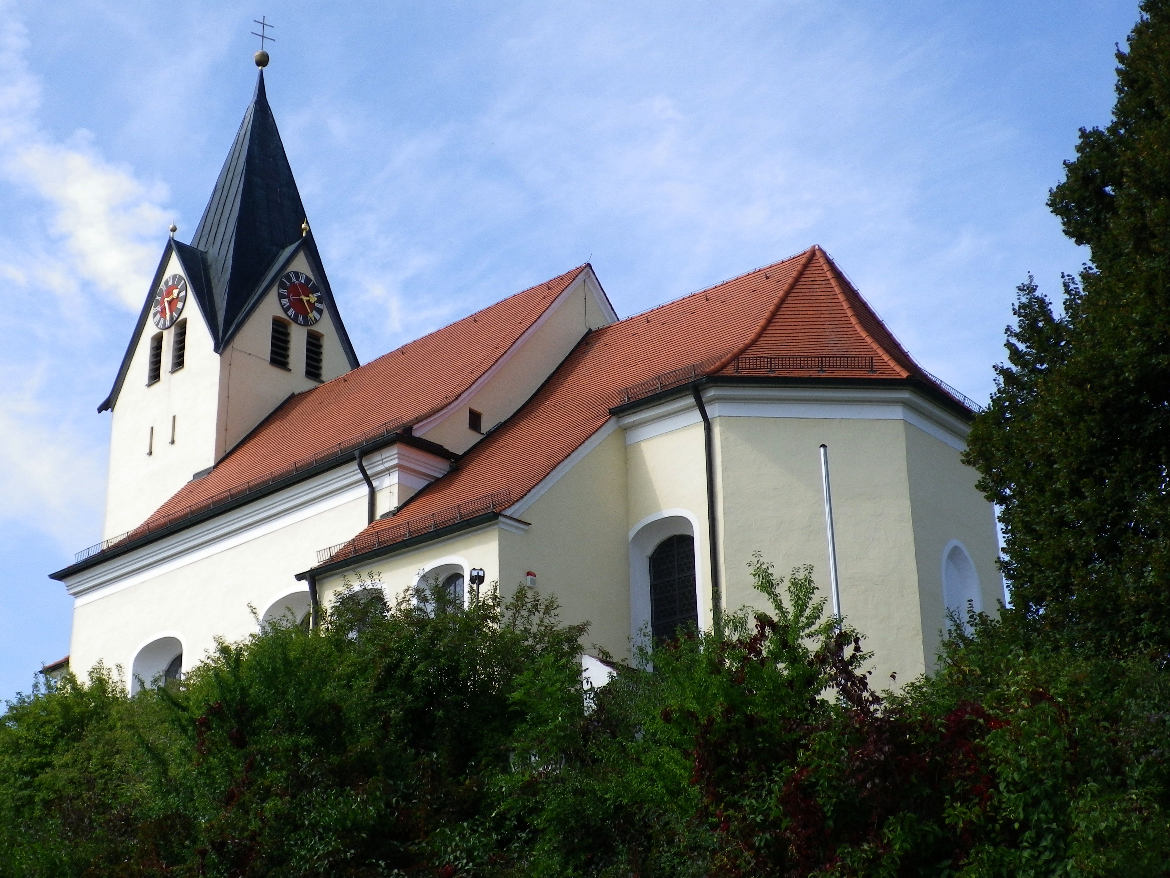 This is a photograph of an architectural monument.